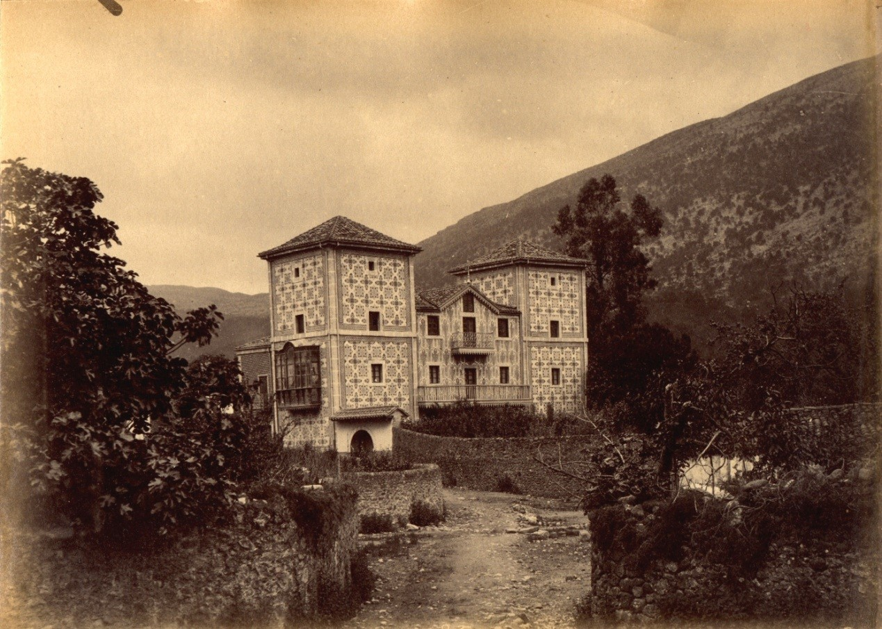 Imagen del palacio de los Valle en Valle (Ruesga), Cantabria de Fernando Ceballos de León. 1922